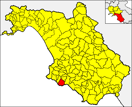 Locator map of the municipality of Pollica (red) within the Province of Salerno